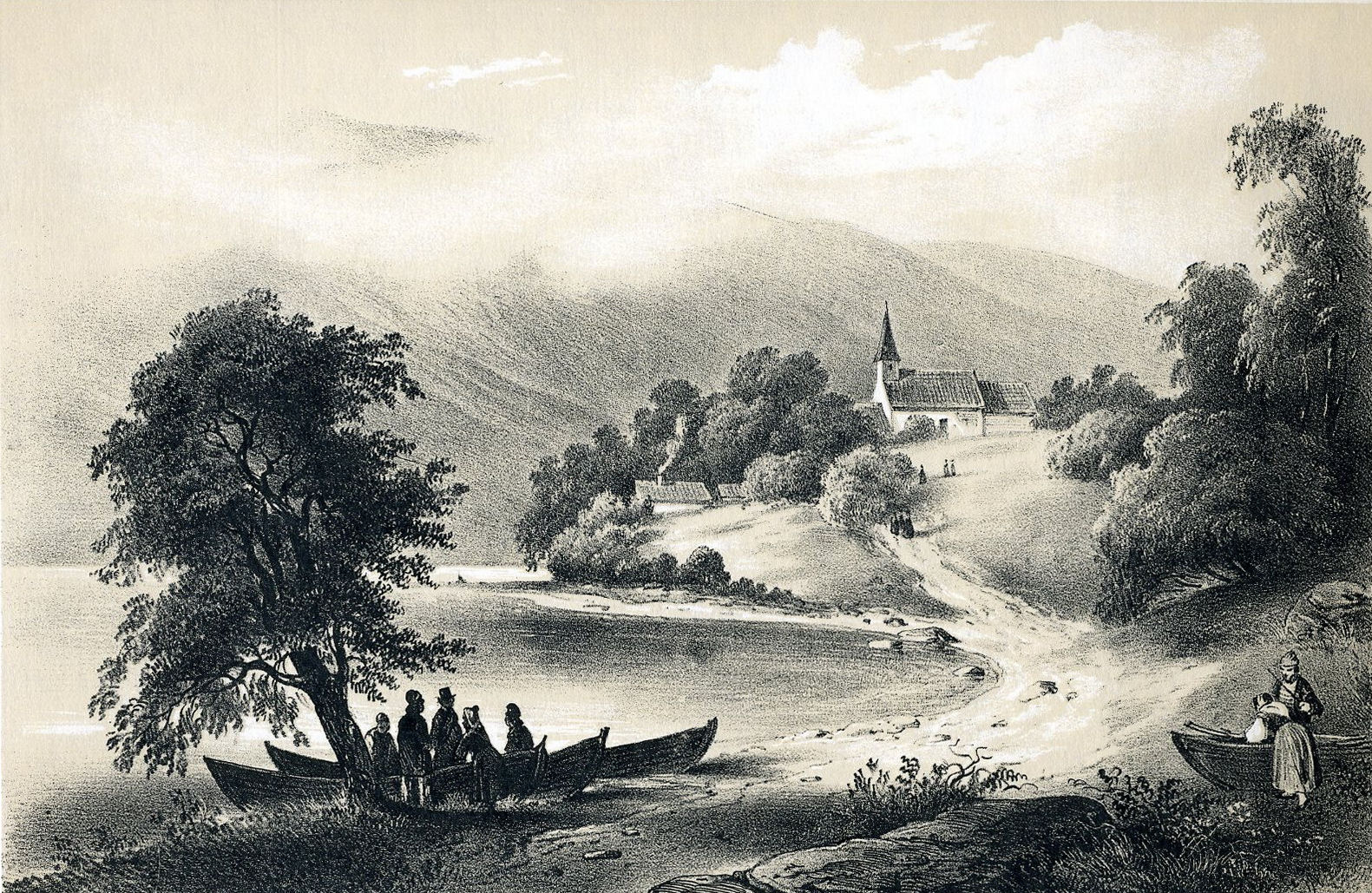 Pictures from the Work "Norge fremstillet i billeder" 1848 by Chr. Tønsberg. Ullensvang, Ullensvang municipality, Hordaland county, Norway. Ull is the name of one of the old Viking gods. The name indicates that the place may have been the location of an old pagean shrine.